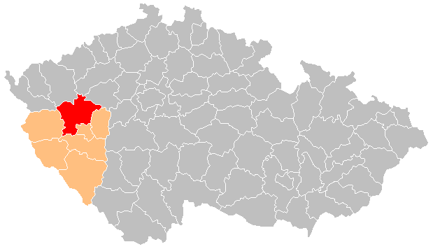 Plzeň-North District within Plzeň Region. Current borders of districts since January 1, 2007.